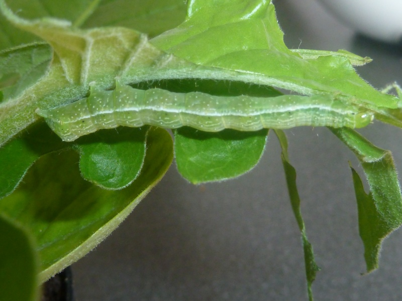 Chrysodeixis chalcites larva. Location: The Netherlands - Deventer - Colmschate